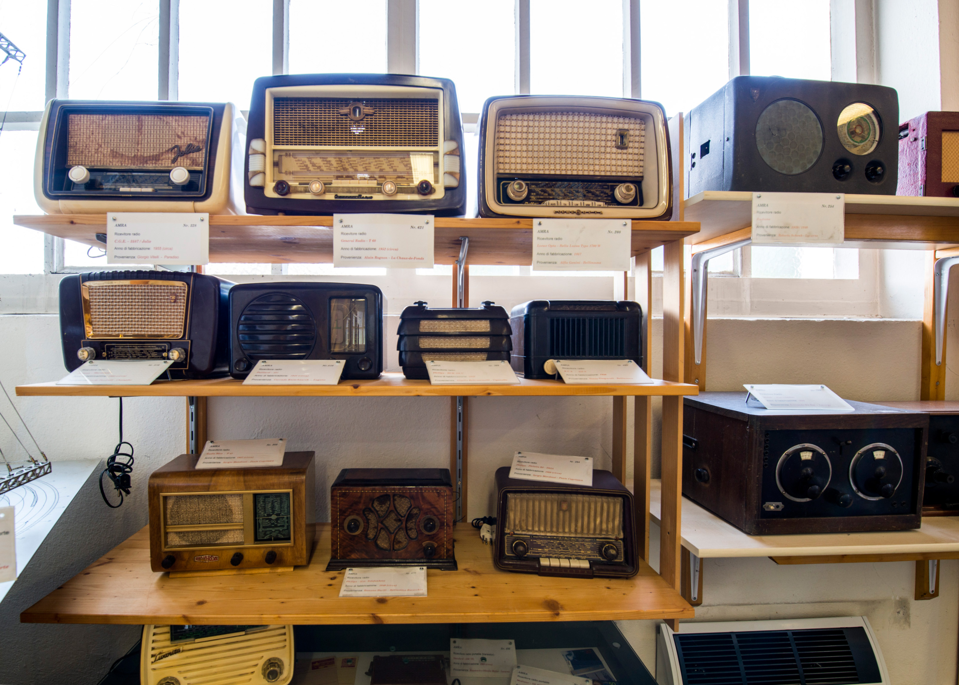 The making of this document was supported by Wikimedia CH. (Submit your project!) For all the files concerned, please see the category Supported by Wikimedia CH.